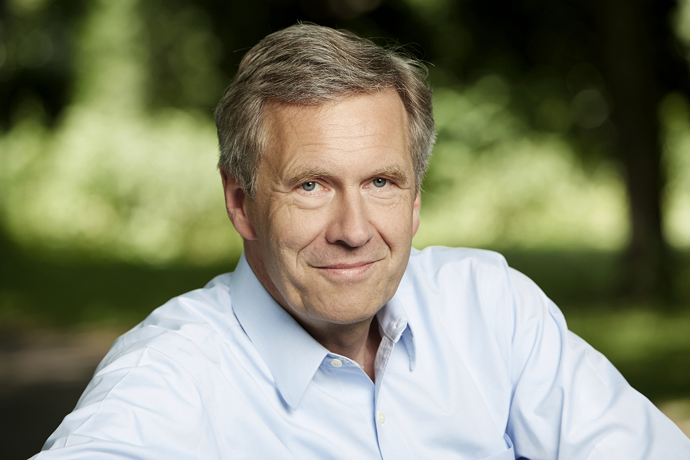 Christian Wulff, former President of Germany